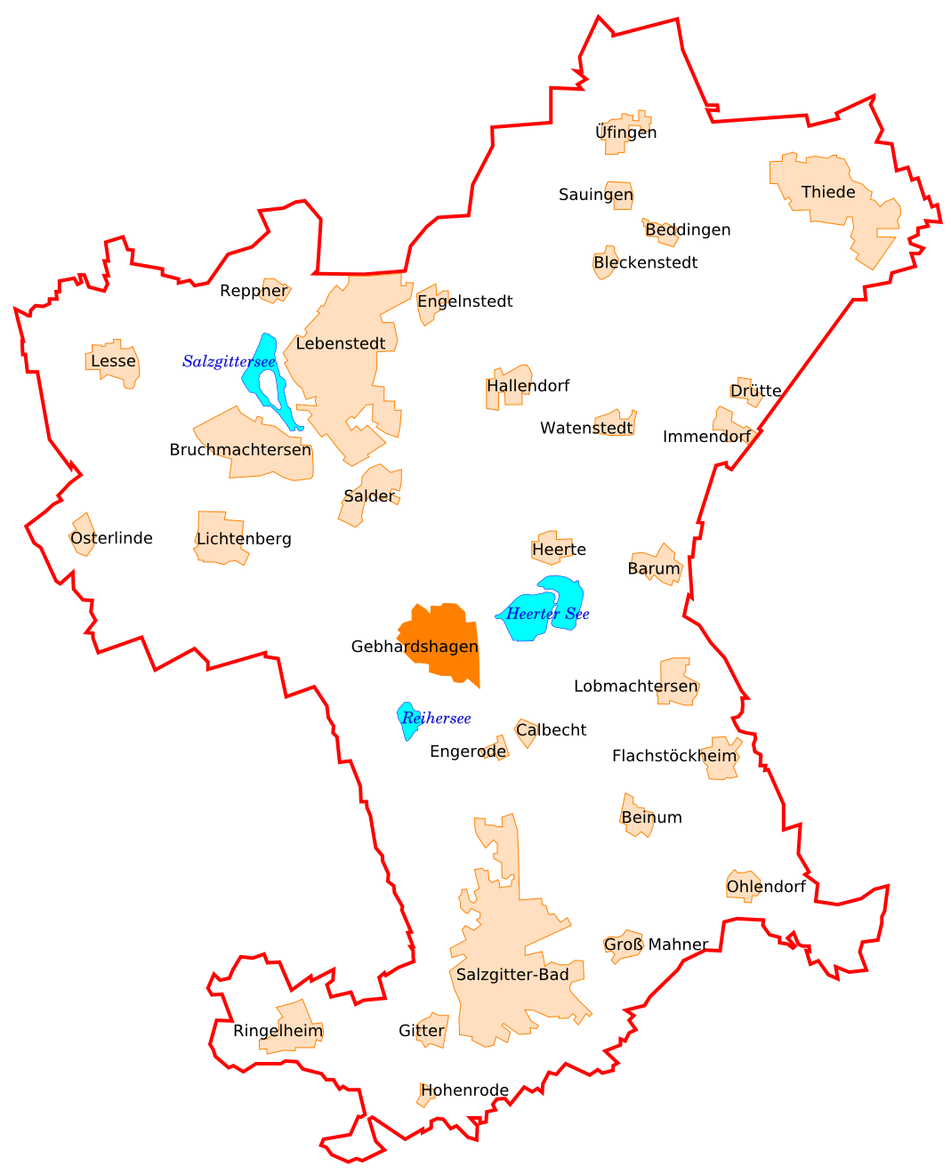 Map of Salzgitter showing the subdivision Gebhardshagen